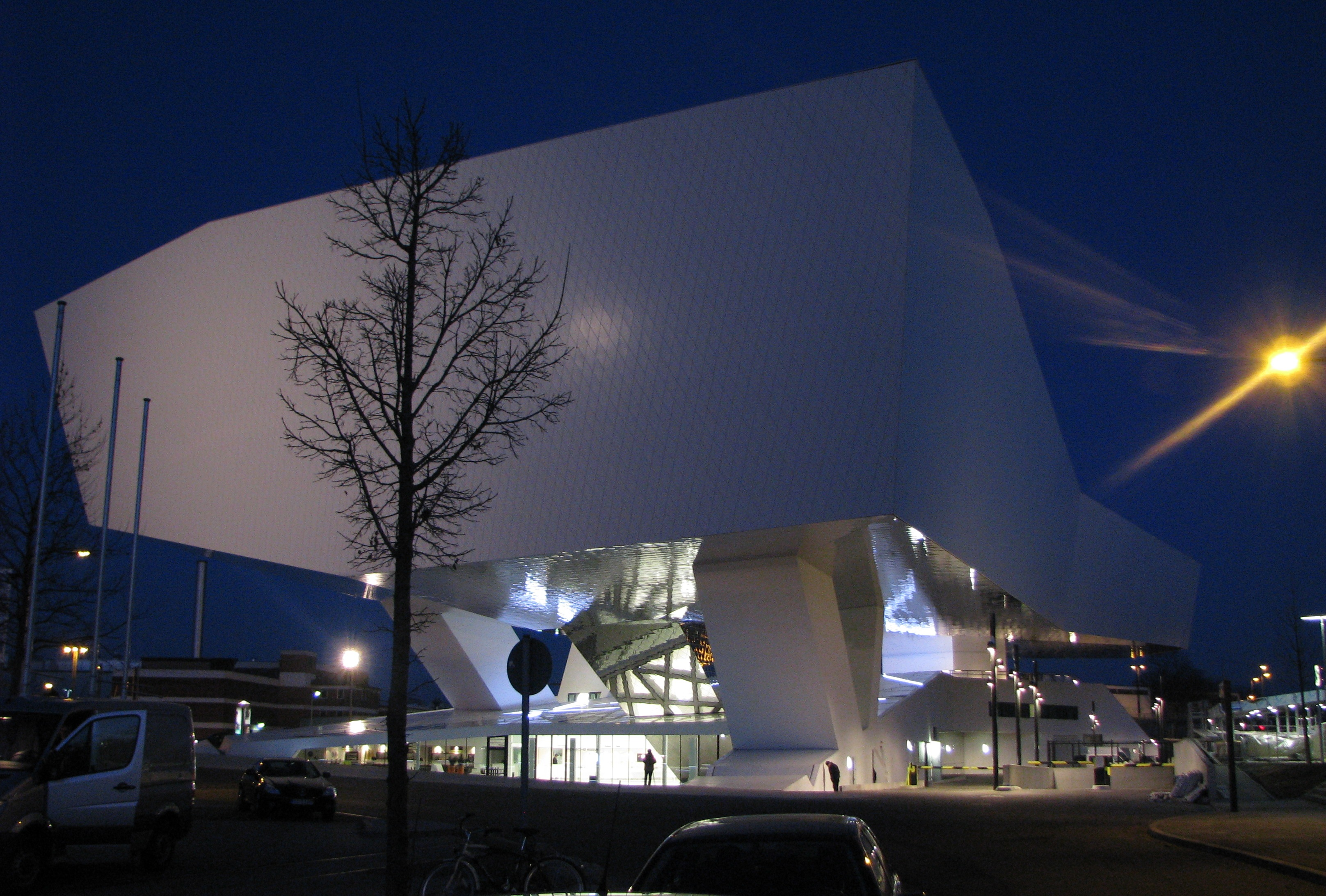 2009 Porsche-Museum viewed from West